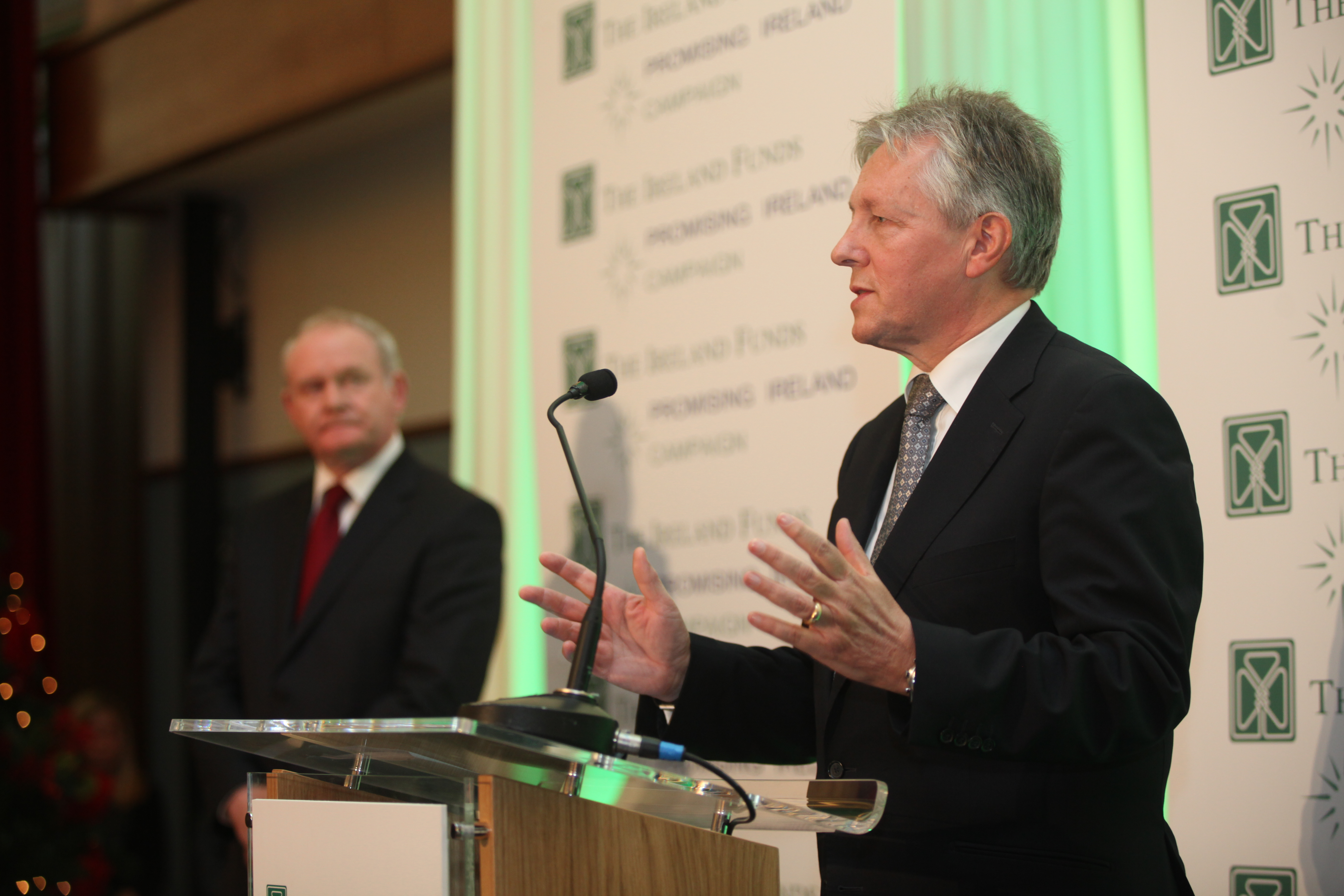 Peter Robinson at Titanic Belfast, 2012 during the visit of Hillary Clinton, with Martin McGuinness in the background